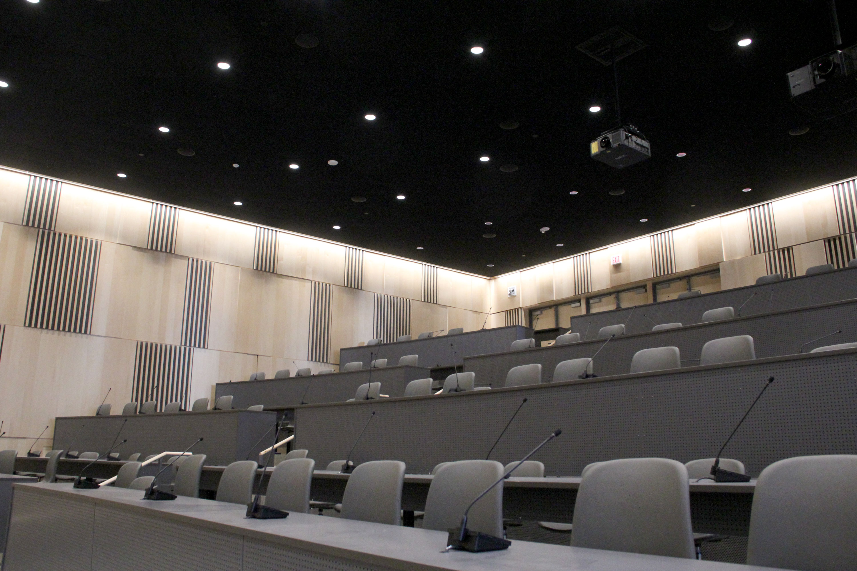 Interior view of the Lindner Hall auditorium